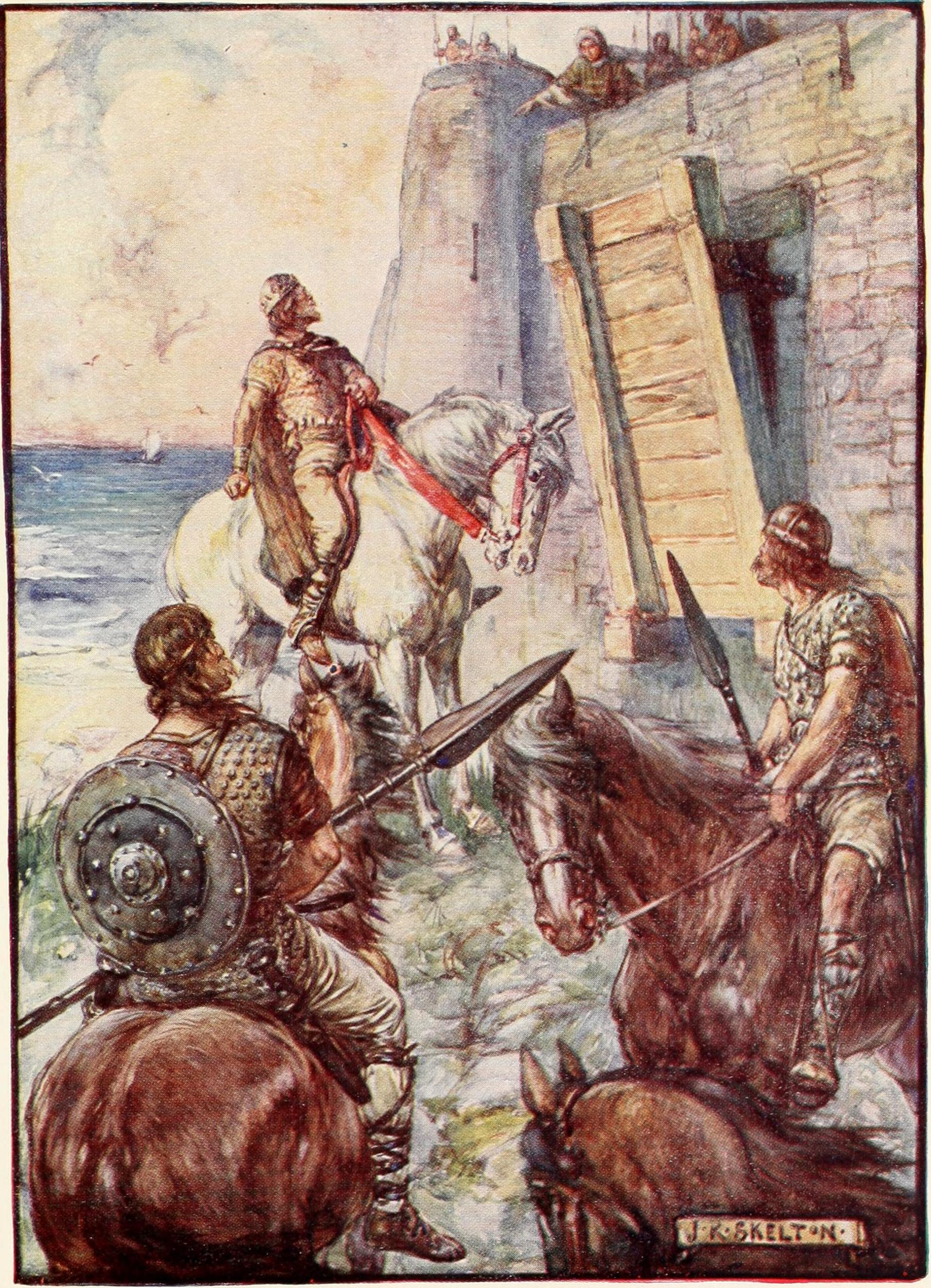 Scotland's story : a history of Scotland for boys and girls by Marshall, H. E. (Henrietta Elizabeth), b. 1876 Published 1907 SHOW MORE List of Kings from Duncan I.: p. 419-421 Publisher London : T.C. & E.C. Jack Pages 496 Possible copyright status NOT_IN_COPYRIGHT Language English Digitizing sponsor MSN Book contributor New York Public Library Collection newyorkpubliclibrary; americana Full catalog record MARCXML [Open Library icon]This book has an editable web page on Open Library.